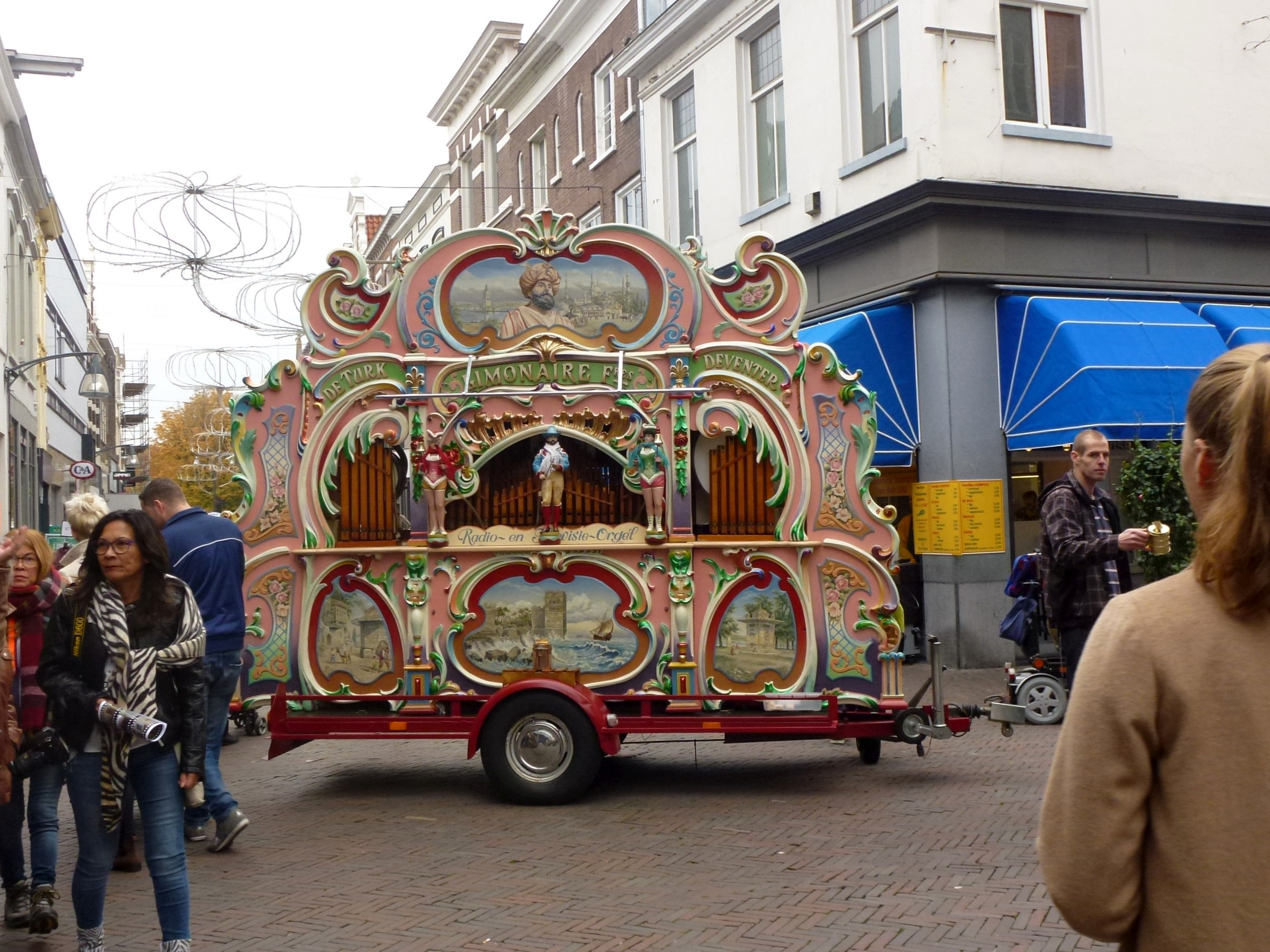 Mechanical organ 'De Turk' in the pedestrian area of Deventer, built 1908 in Paris: front side, total